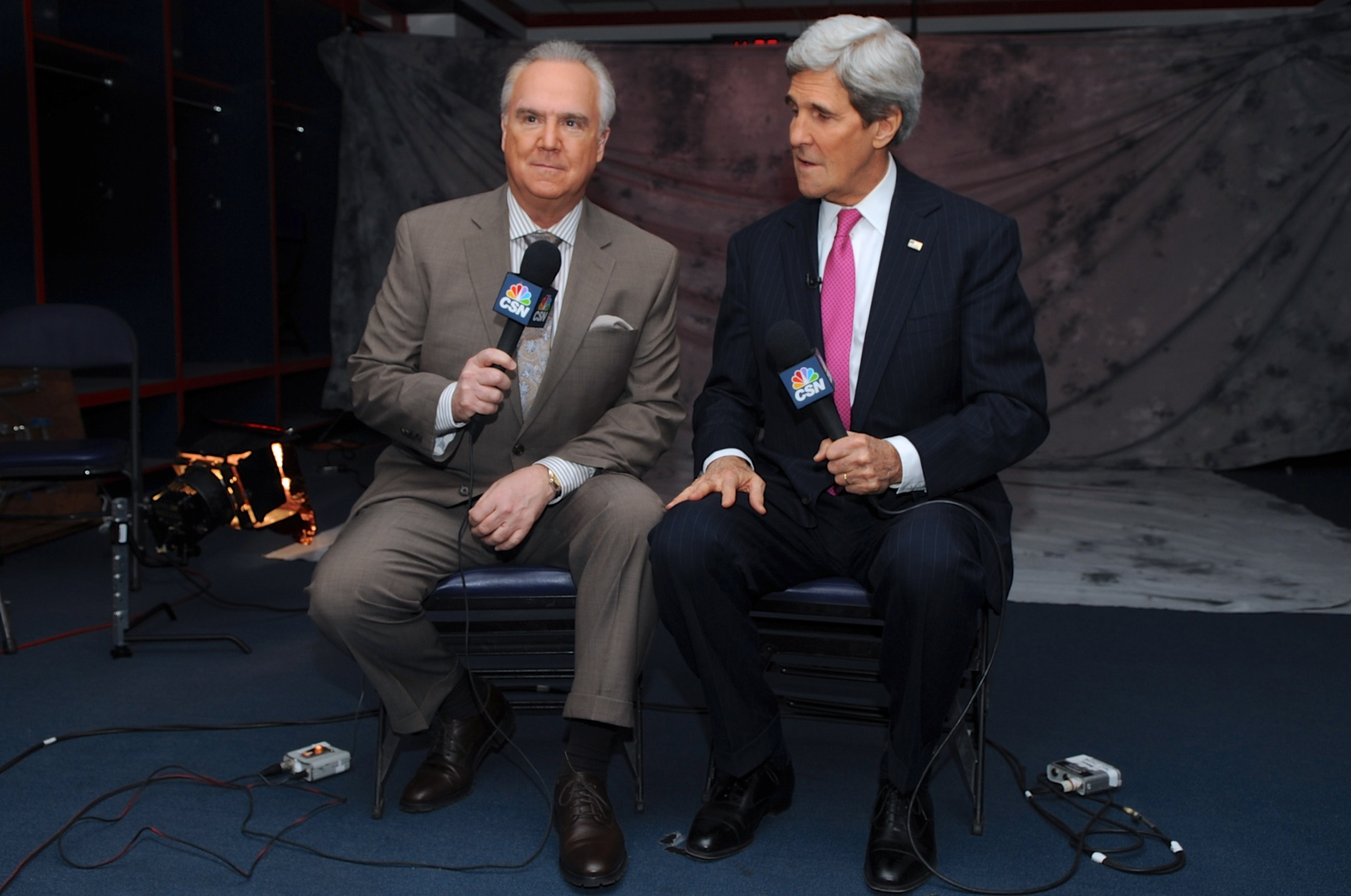 U.S. Secretary of State is interviewed by Comcast Sports Network reporter Al Koken before dropping the puck and sending off Olympics hockey players as the Caps played the Winnipeg Jets at the Verizon Center in Washington, D.C., on February 6, 2014. [State Department photo/ Public Domain]